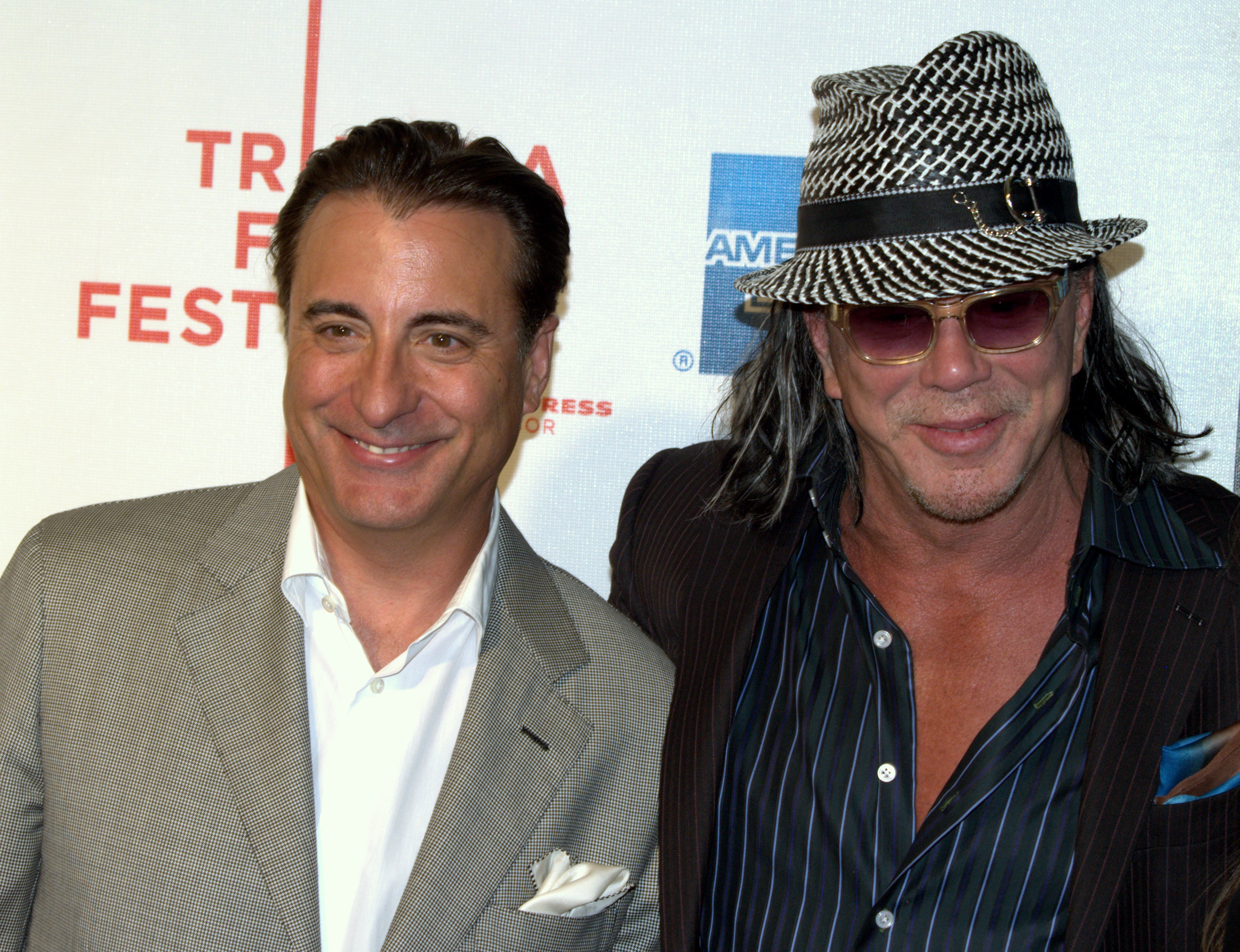 Andy Garcia and Mickey Rourke at the 2009 Tribeca Film Festival for the premiere of City Island. Photographers blog post about the event for this photo.